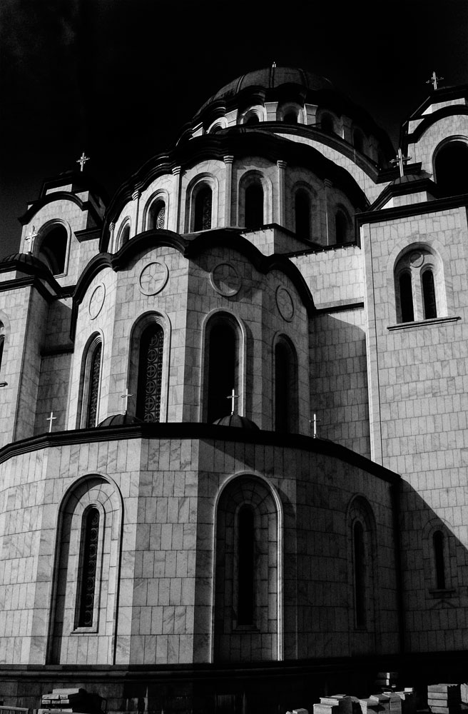 Detail of the St Sava Temple